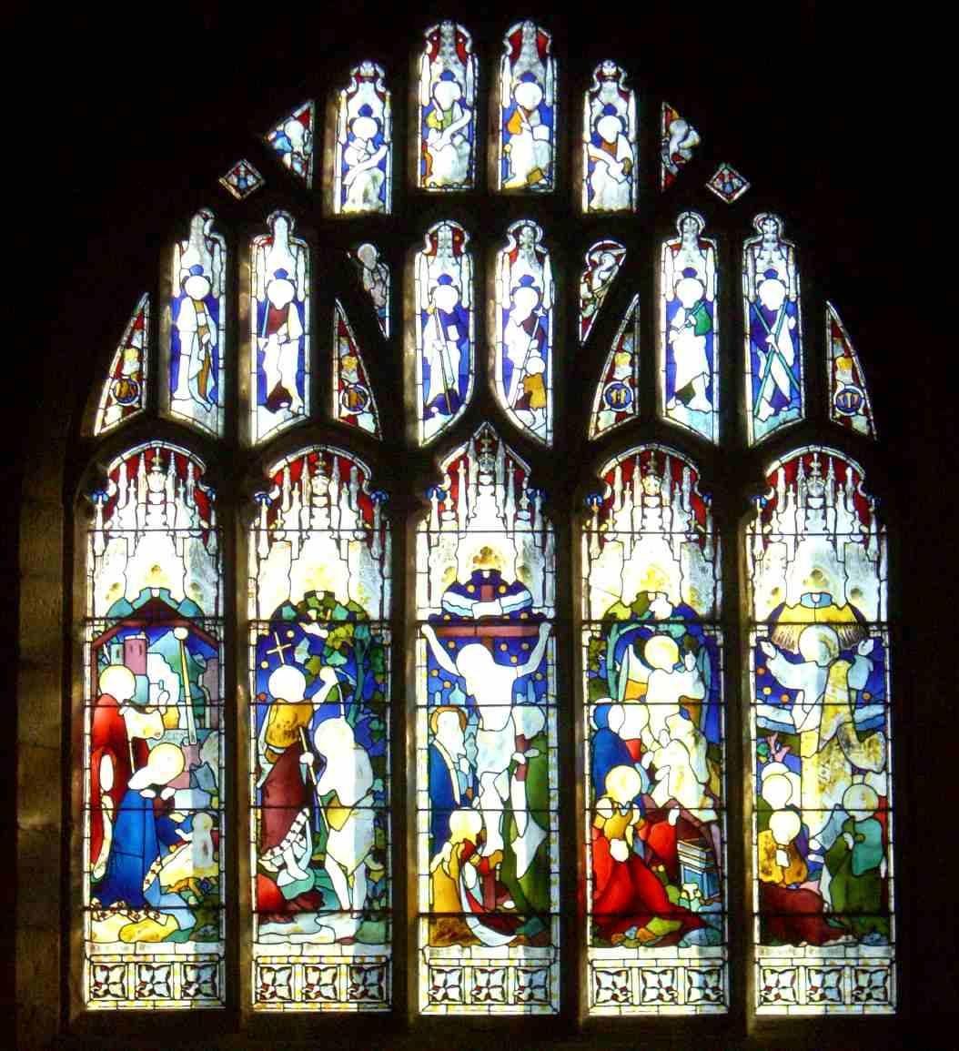 Personal picture taken by Mick Knapton